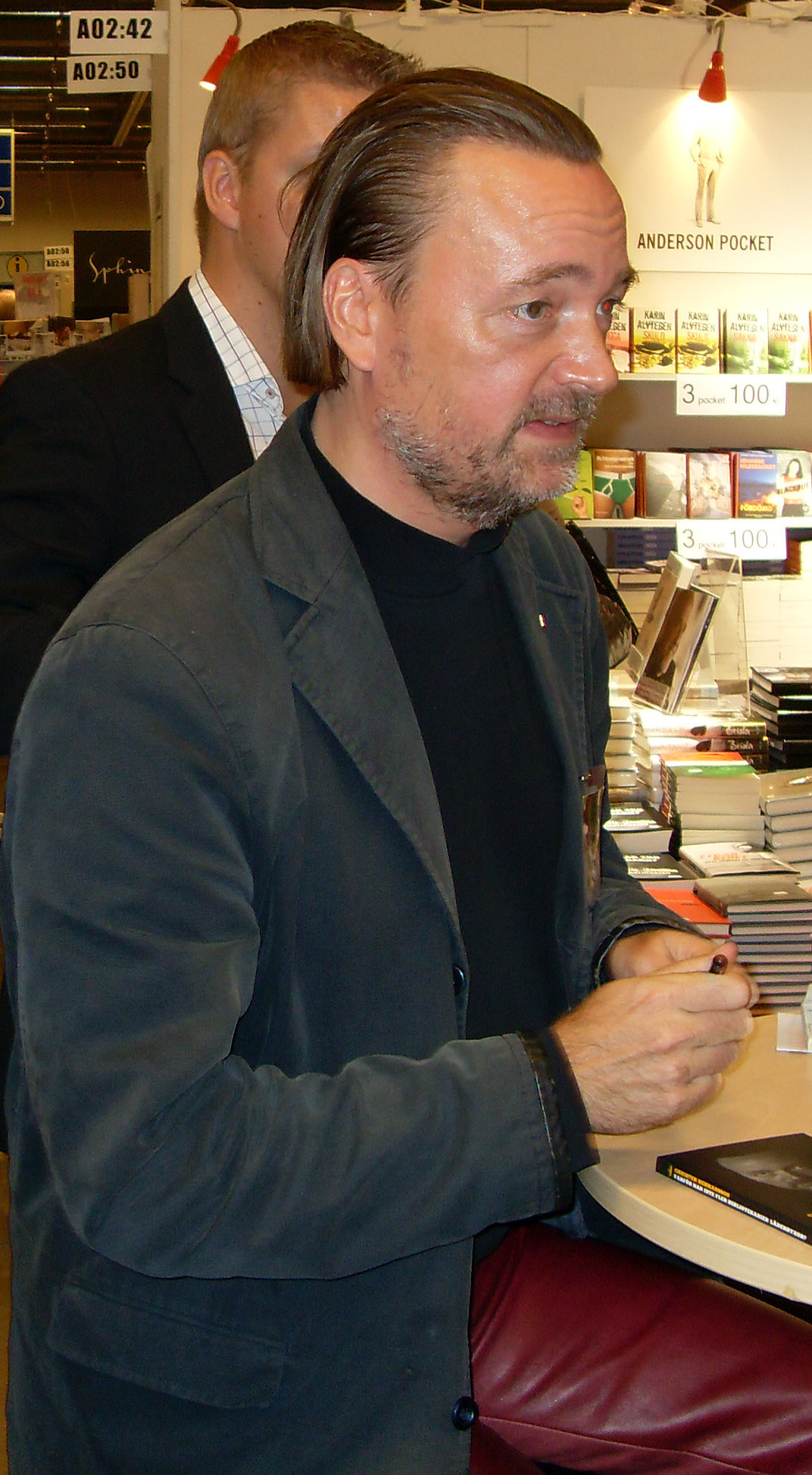 Swedish author Christer Hermansson at Gothenburg book fair 2008